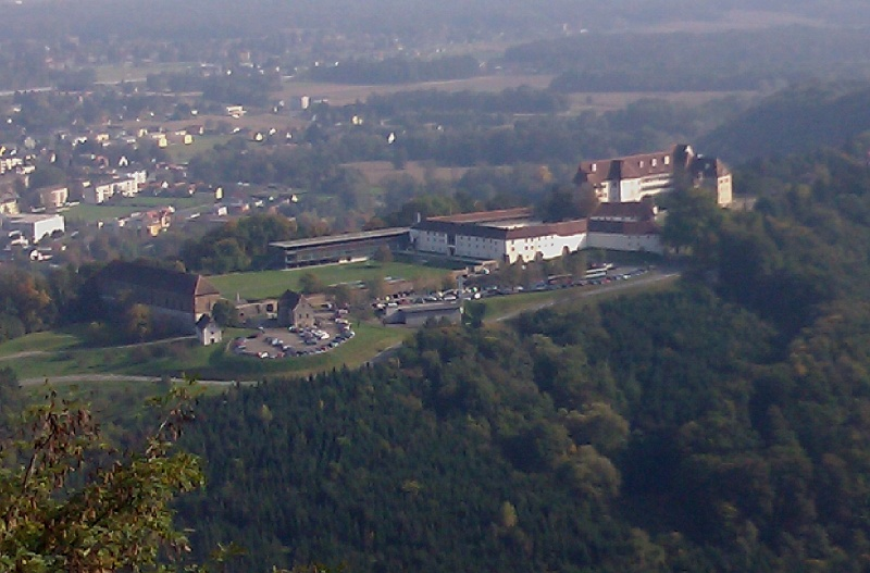 Seggau castle